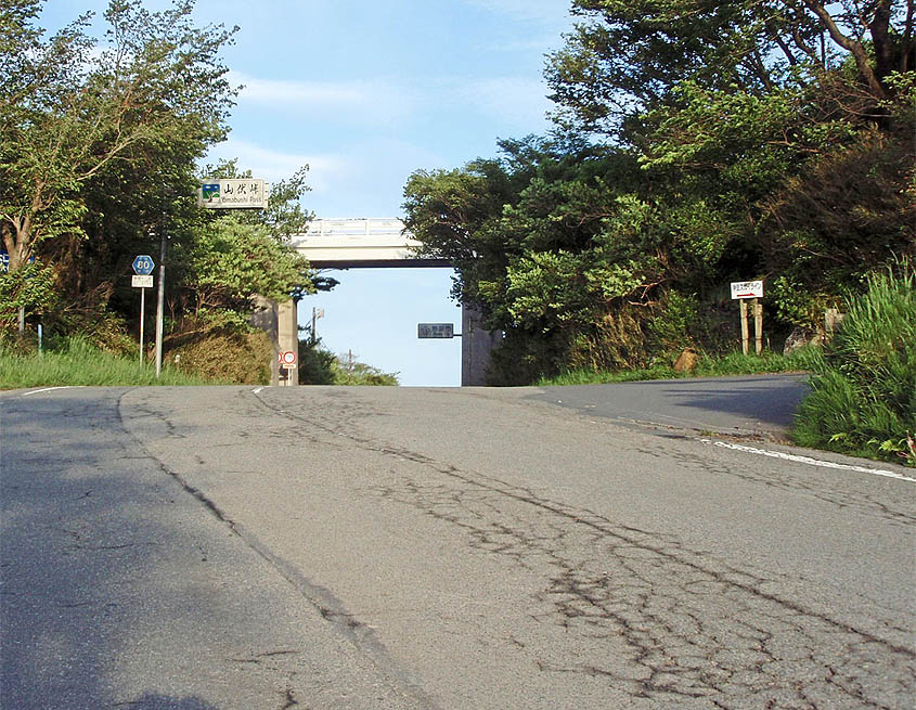 Yamabushi Pass in Shizuoka Prefecture, Japan.